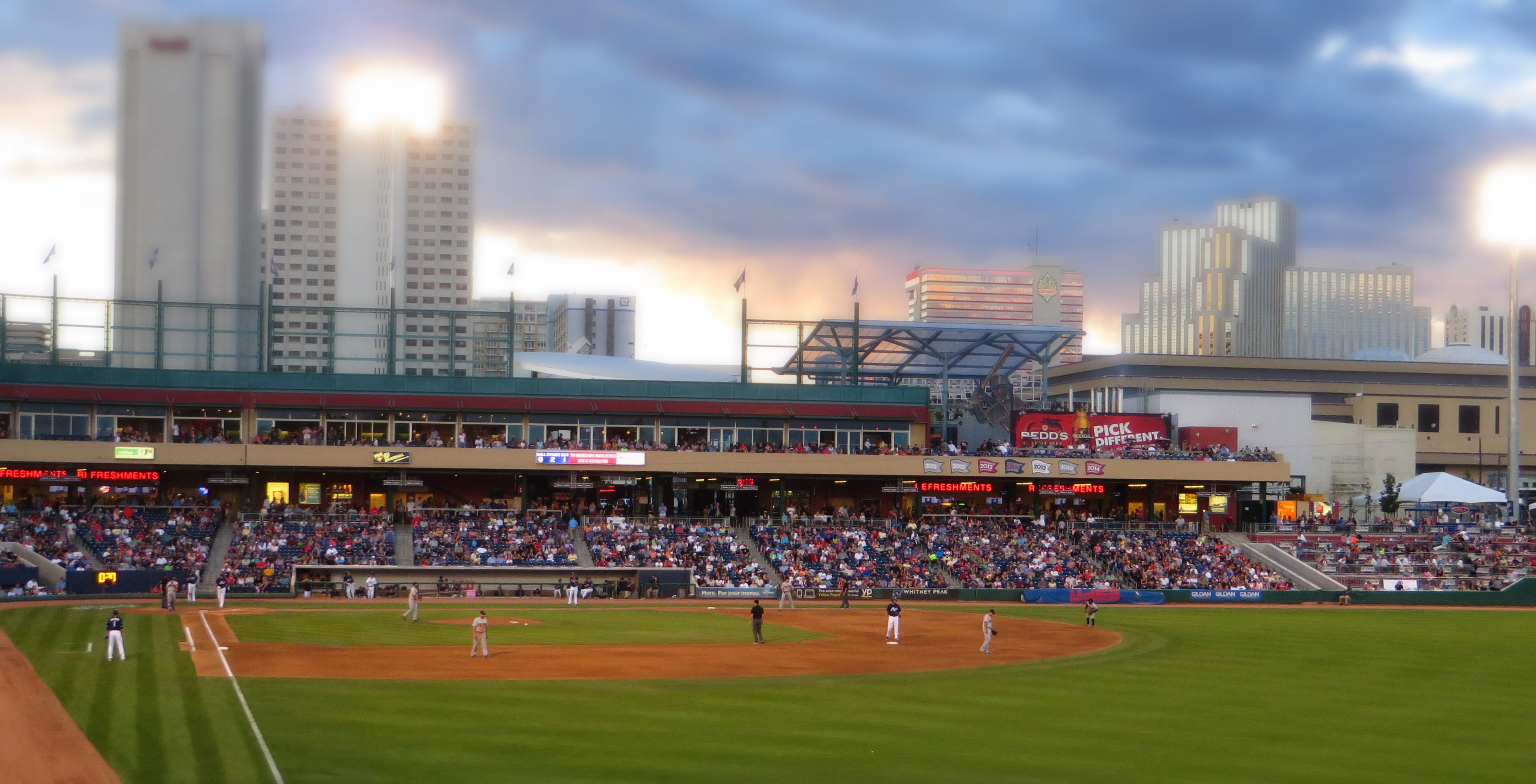 Aces Ballpark is a baseball venue located in Reno, Nevada, and the home of the Triple-A Reno Aces in the MiLB Pacific Coast League. Aces Ballpark is located next to the Truckee River and is the centerpiece of a planned downtown Reno redevelopment effort, named the Freight House District. Aces Ballpark has an official capacity of 9,100, with 6,500 fixed individual stadium seats, and the rest through general admission. The park has a berm beyond right field, and has standing room surrounding the entire field. In addition, there are two "party zones" with picnic table seating, 22 luxury skyboxes, a 150-person club suite, and two 15-person luxury dugout suites located immediately behind home plate. Due to the flexibility of party zones, skyboxes and large general admission areas, game attendance can regularly be above the official stadium capacity. Four concession stands are staggered throughout the stands. Great Basin Beer is served on premises. Aces Ballpark has a very deep field, 339 ft (103.3 m) at its shallowest point and 424 ft (128.9 m) at its deepest point. Therefore, despite Reno's high elevation, home runs are less likely to occur, and line drive triples are more likely. Aces Ballpark has no parking, though a 9-story privately owned parking garage (which is currently charging a flat rate of $10) is located immediately behind the stadium. Additionally, downtown Reno casinos have many parking garages available within walking distance of the stadium.